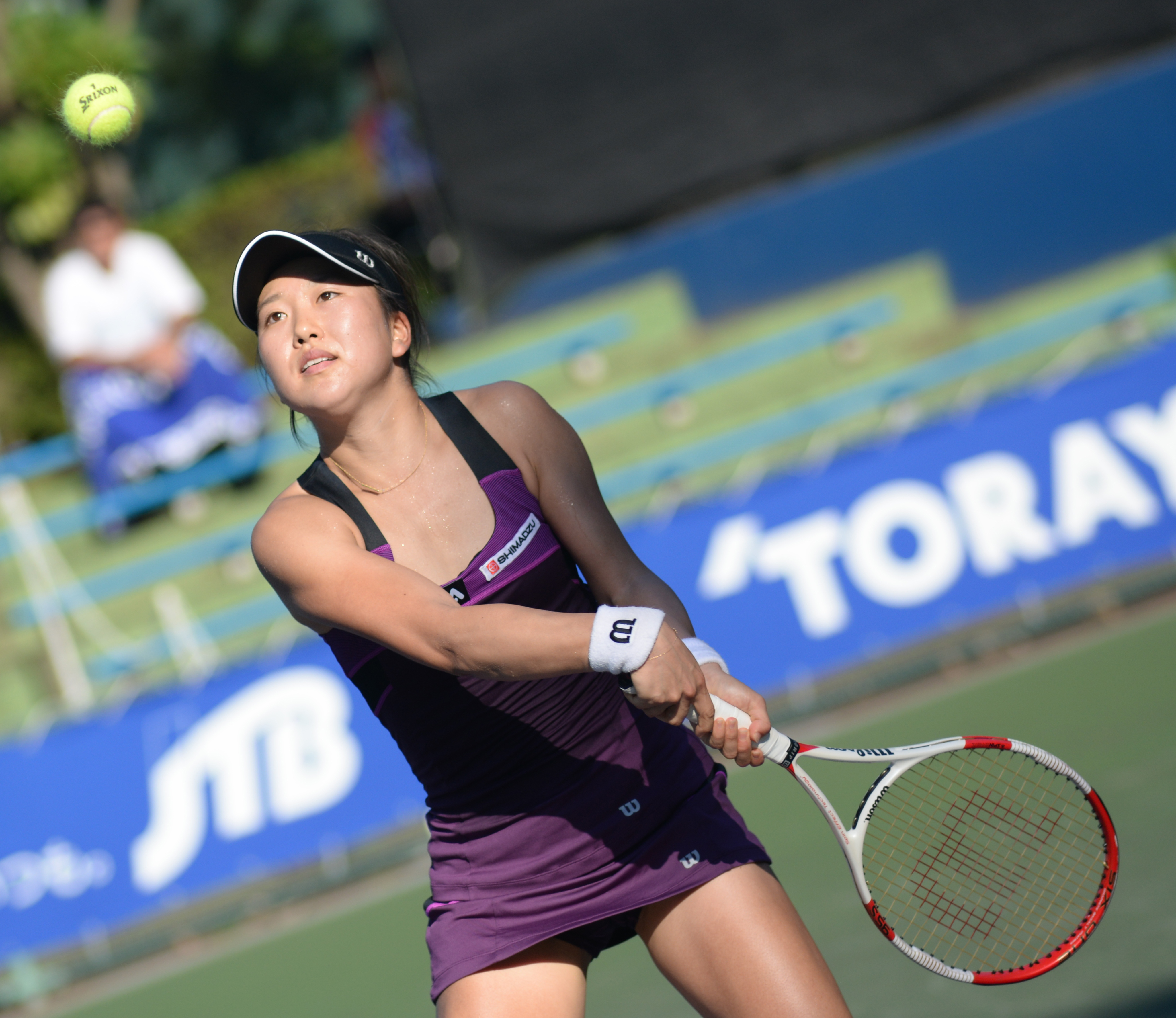 Miharu Imanishi at the 2014 Toray Pan Pacific Open